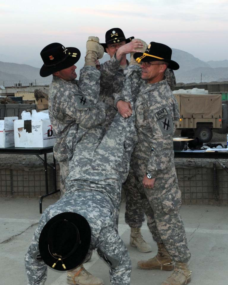 Chaplain (Capt.) Shelby U. Grant, of Lawrenceville, Ga., is ‘shoed’ with his gilded spurs as part of the ‘Roughriders’ New Year’s celebration event at FOB Torkham by fellow 1st Squadron, 108th Cav. Regiment. Chaplain (Capt.) Gerald D. Burris (left) of Canton, Ga., ‘Roughriders’ Commander, Lt. Col. Randall V. Simmons (center) and Command Sgt. Major Joseph E. Recker (right) both of Calhoun, Ga.